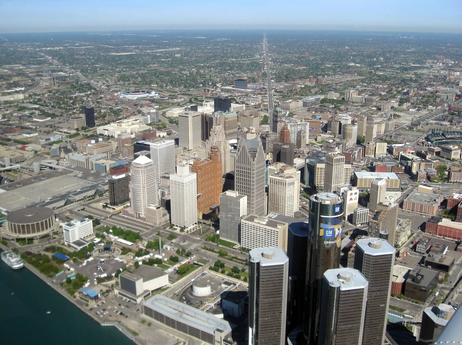 Aerial View of Downtown Detroit, Michigan, USA. Looking up Grand River Ave.